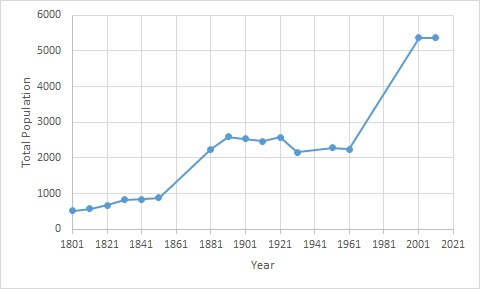 Total Population of Cliffe (and Cliffe Woods) Civil Parish, Kent, as reported by the Census of Population from 1801 to 2011. Figures for 1971-1991 not included.